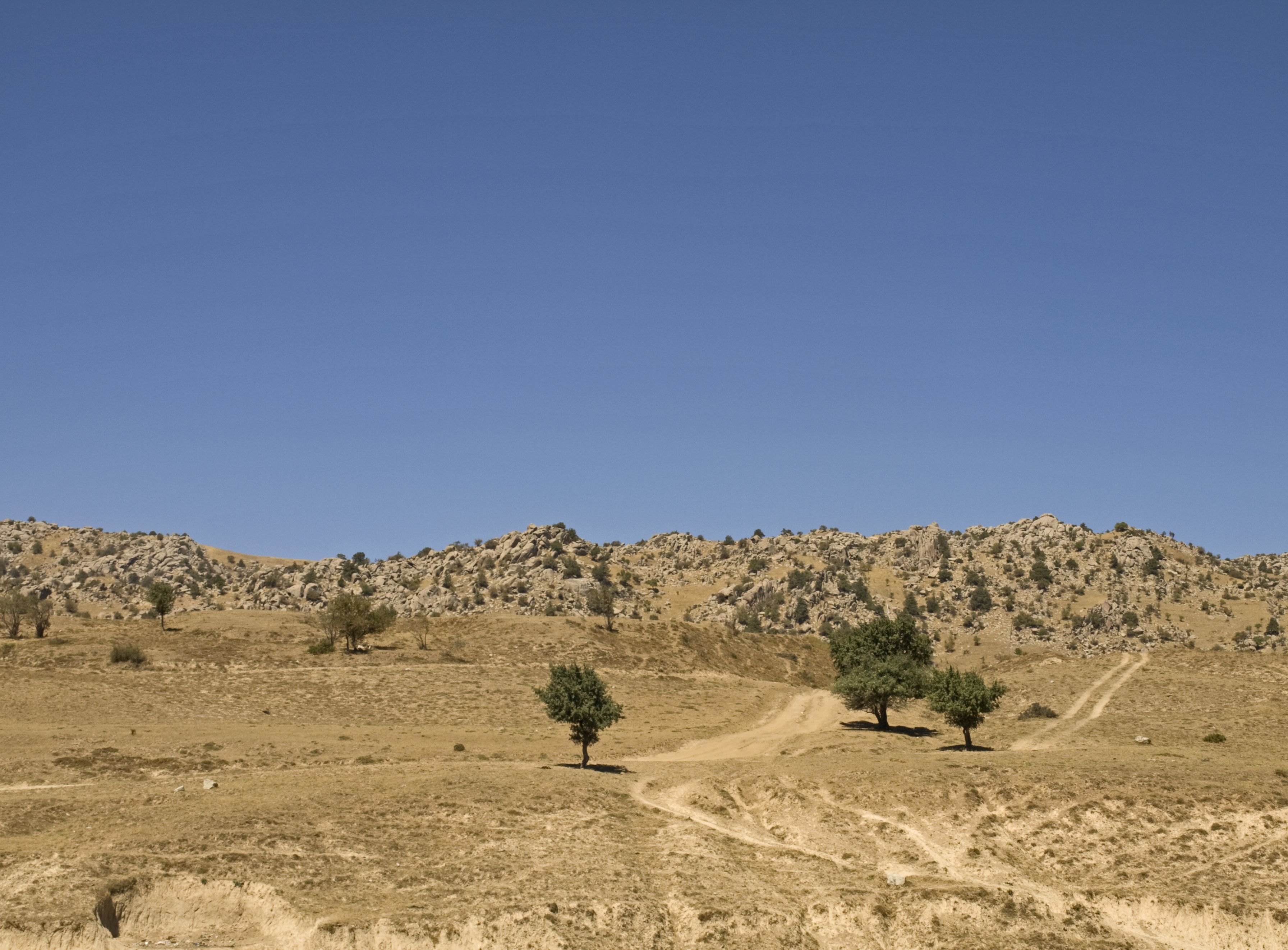 View from Takhta-Karacha Pass (between Samarkand and Shakhrisabz) to the south